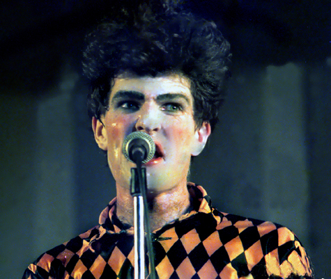 Tim Finn (of Split Enz), performing in 1979 at the Nambassa festival Image (photograph) taken by Official Nambassa Photographer and uploaded by User: Mombas 23:47, 4 May 2007 (UTC) Nambassa dot com Terms of Use: 1/ All users of this image are required to attribute this work to "Nambassa Trust and Peter Terry" and the url: " " is to accompany all use. 2/ Attribution. You must attribute the work in the manner specified by the author or licensor. 3/ For any reuse or distribution, you must make clear to others the license terms of this work. Statement by Nambassa Trust and Peter Terry